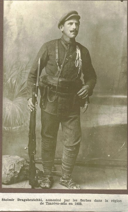 Stoimir Dragobrashki from IMARO